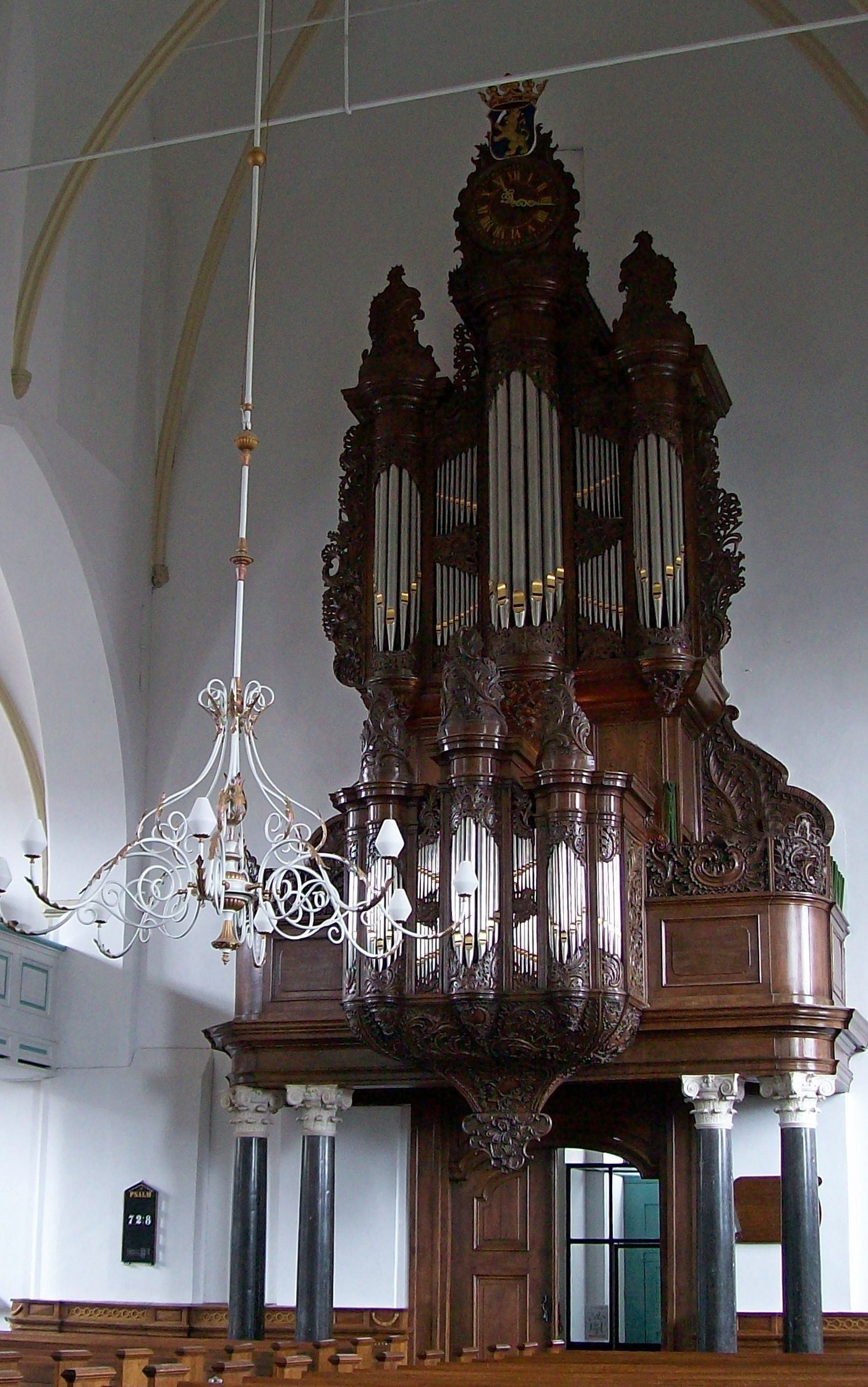 The organ at the Great Church at Nijkerk (the Netherlands)